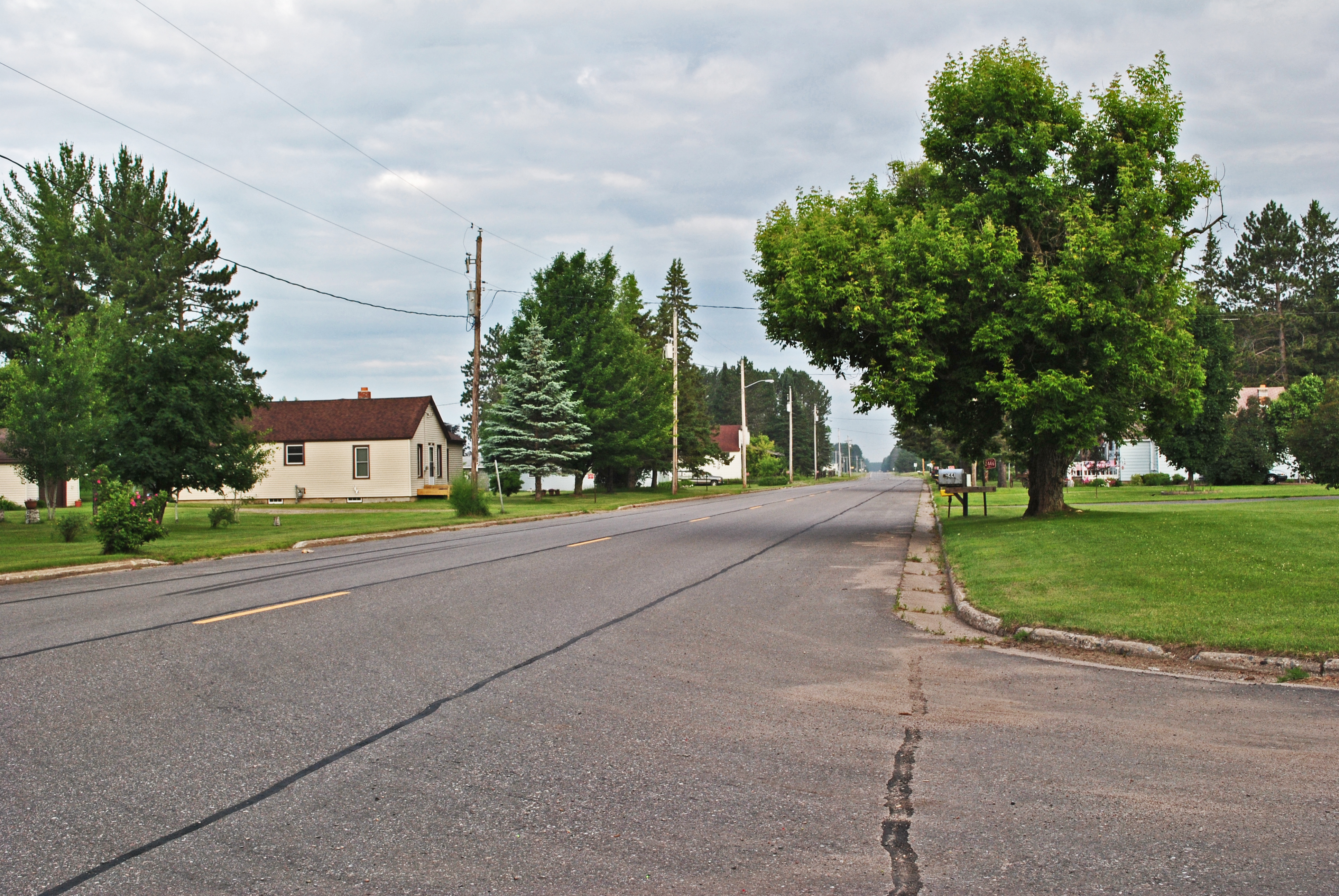 Starks, WI